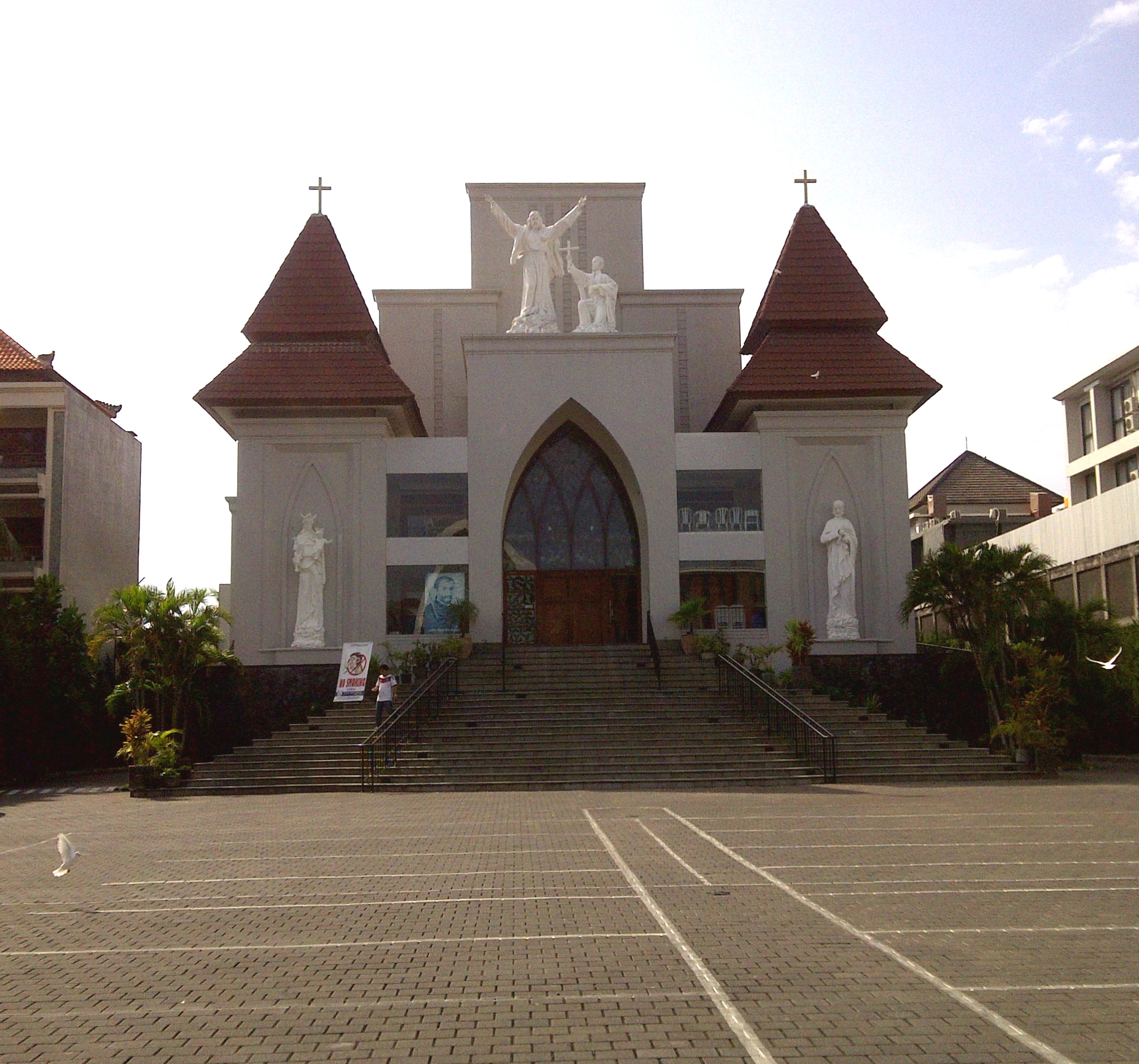 St Francis Xavier Church Kuta, Bali, Indonesia